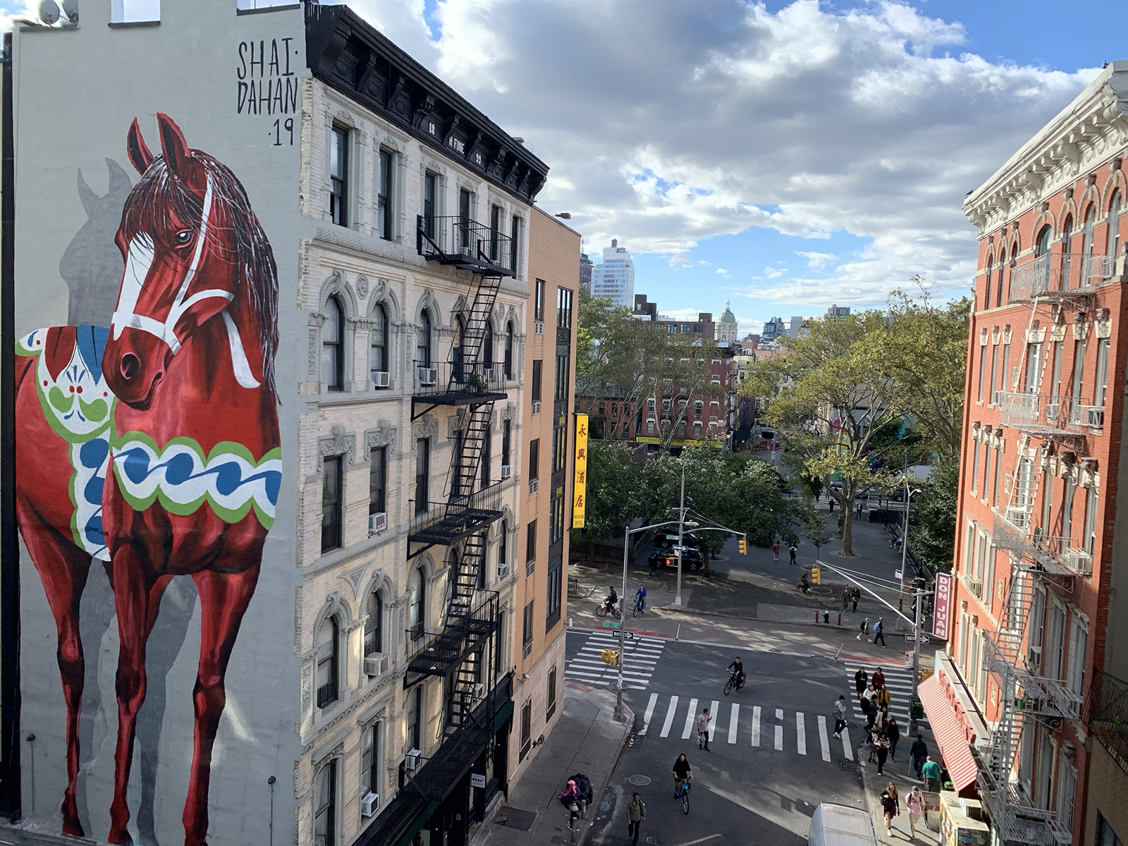 The world's largest Dalecarlian horse painting in New York City painted by Shai Dahan made in 2019.